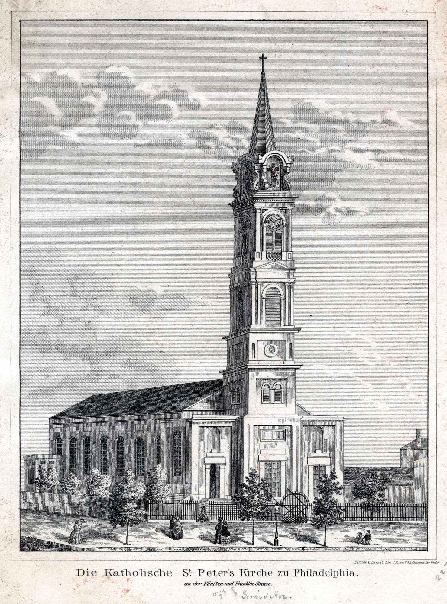 Exterior view of the Roman-style German Catholic church, St. Peter the Apostle, built 1842-1847 at 1015 North Fifth Street after the designs of Napoleon Le Brun. Also shows pedestrian traffic, including two children holding hands.